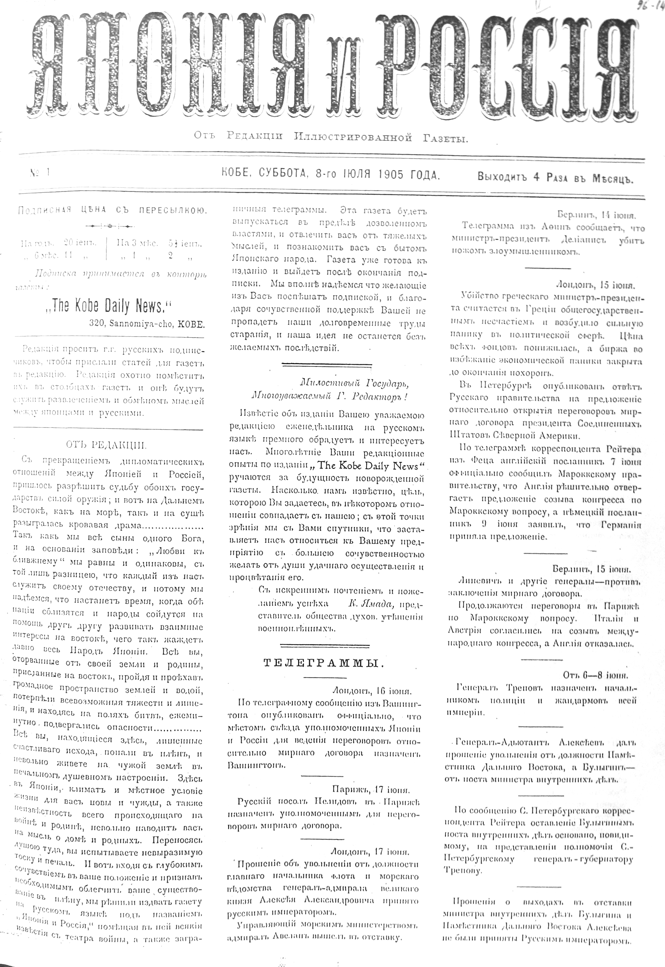 Japan and Russia (1905-1906) newspaper